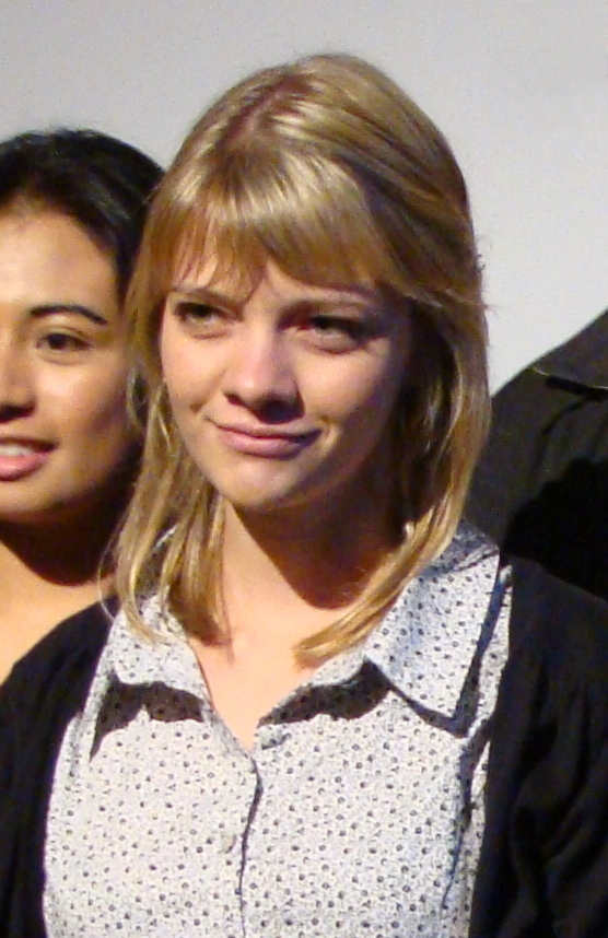 Jessica Watson, cropped from team photos of the Imagine Cup 2011 finalists from Australia.